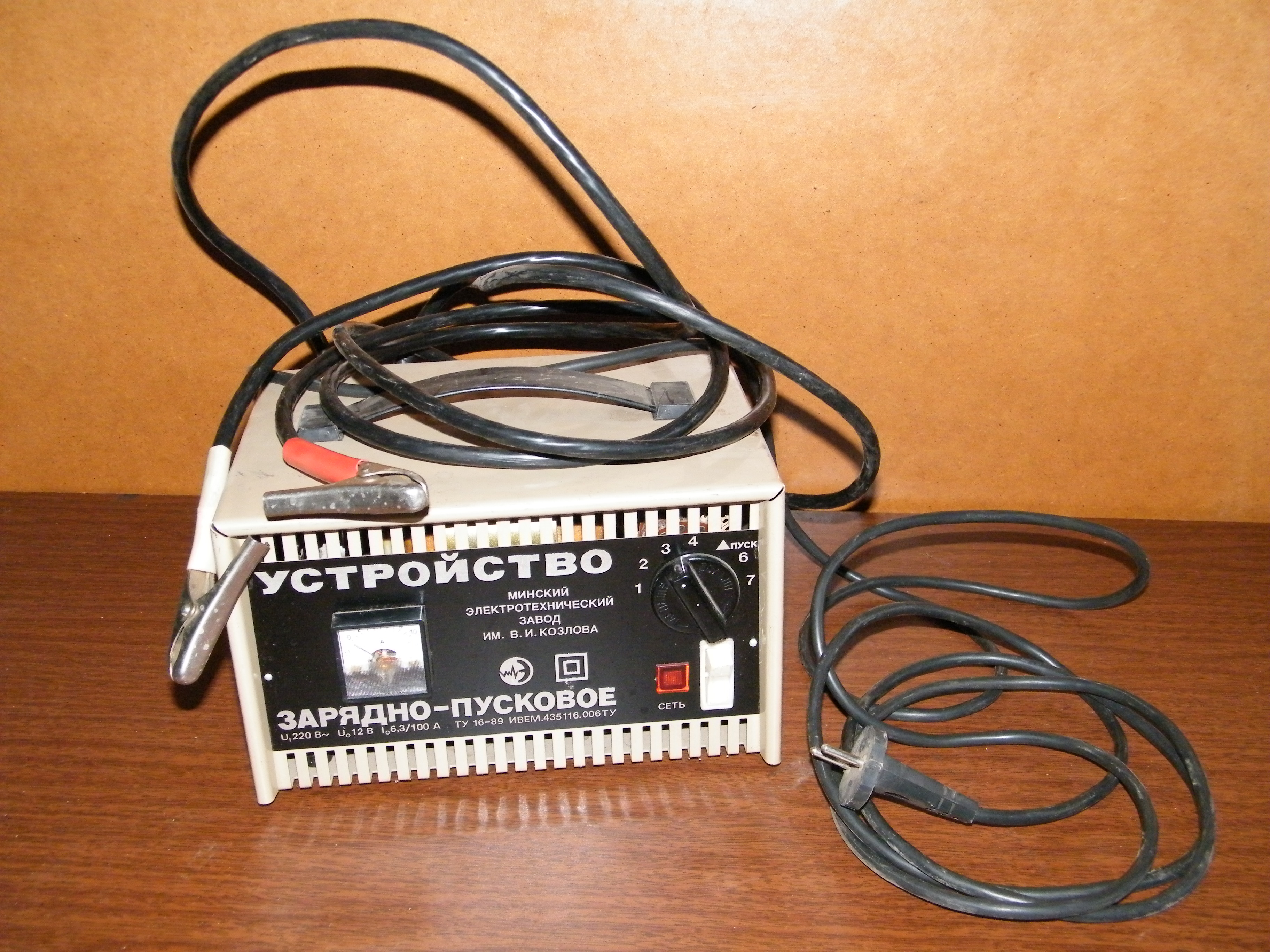 Lead acid battery charger + jump start